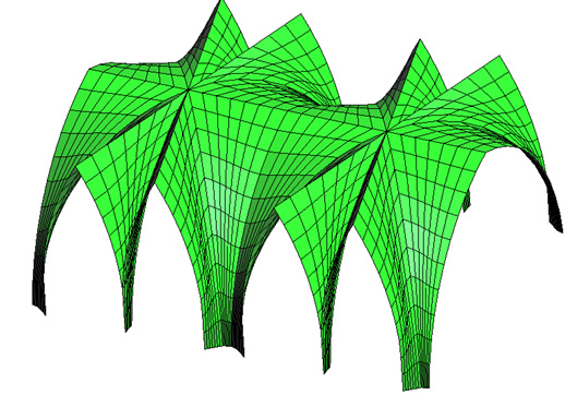 A model analysed with the Finite Element method to assess the collapse mode and deformation of the hypothesis for 6part vaults in Holyrood Abbey.